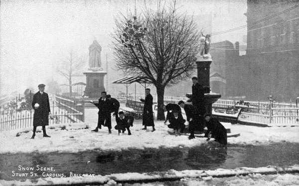 Snow in Sturt Street in 1905 (Victoria, Australia).